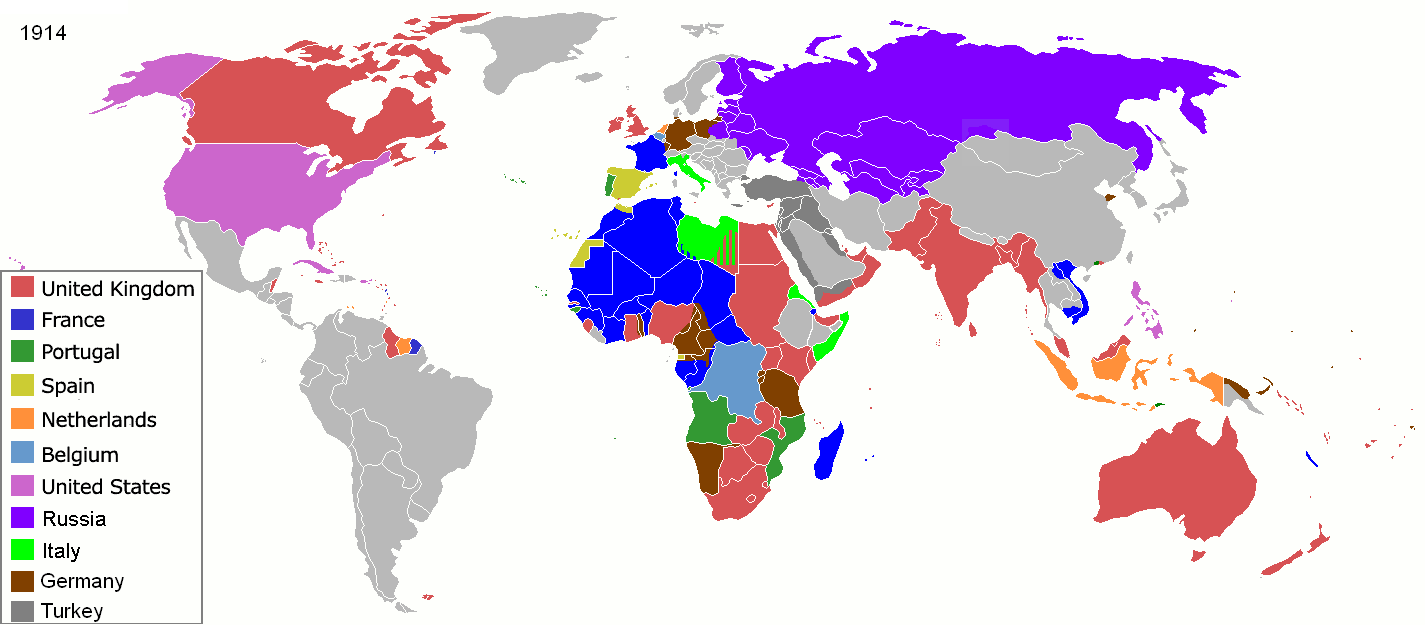 Map of major world powers by year, derived from public domain animated map on wikipedia. Maps of world history BC 2000 · 1000 · 500 · 400 · 323 · 300 · 200 · 100 · 50 AD 1 · 50 · 100 · 200 · 250 · 300 · 400 · 500 · 700 · 750 · 820 · 900 · 1556 · 1700 · 1815 · 1859 Maps of colonization history 1492 · 1550 · 1600 · 1660 · 1754 · 1800 · 1812 · 1822 · 1885 · 1898 · 1914 · 1920 · 1936 · 1938 · 1945 · 1959 · 1974 · 1975 · 2007 Animated Map Maps of Cold War 1959 · 1980 · see also: Eastern Hemisphere only maps template (1300BC-1500AD) (this template: · view · discuss ) As the orriginal licence of the animation was Public Domain, this image which has been derived from it is too: This work has been released into the public domain by its author, Andrei nacu. This applies worldwide. In some countries this may not be legally possible; if so: Andrei nacu grants anyone the right to use this work for any purpose, without any conditions, unless such conditions are required by law.